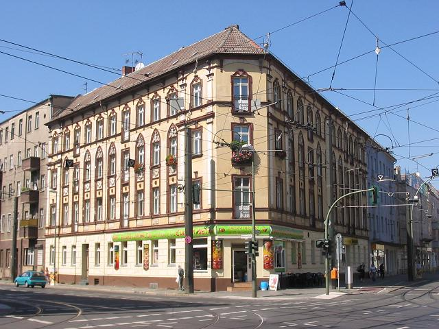 Corner house Wilhelminenhofstraße 15 / Edisonstraße 62 in Berlin-Oberschöneweide